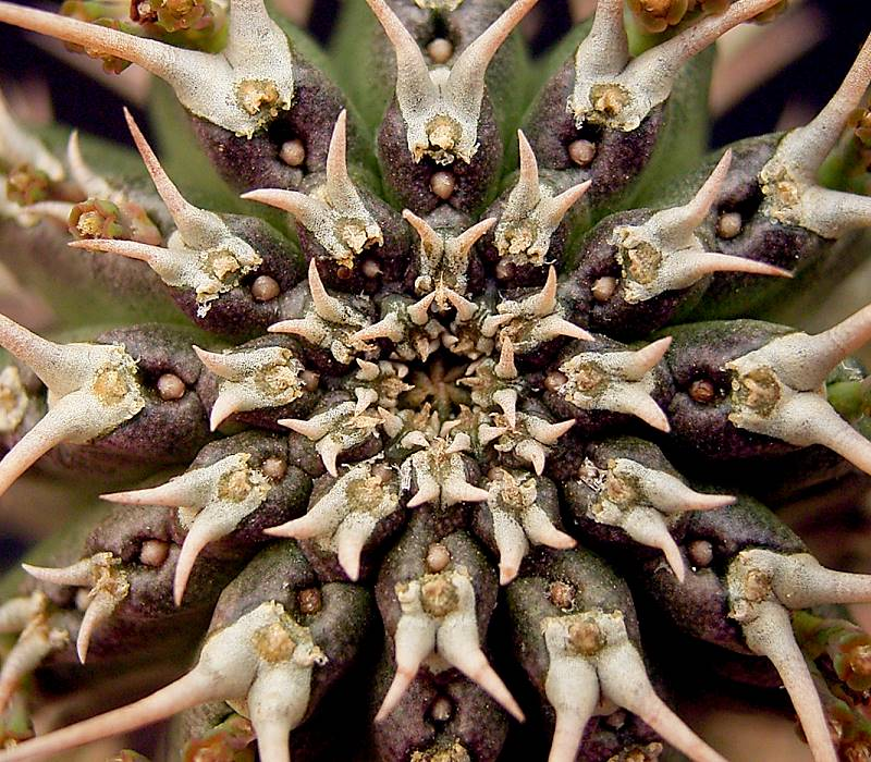 Euphorbia phillipsioides